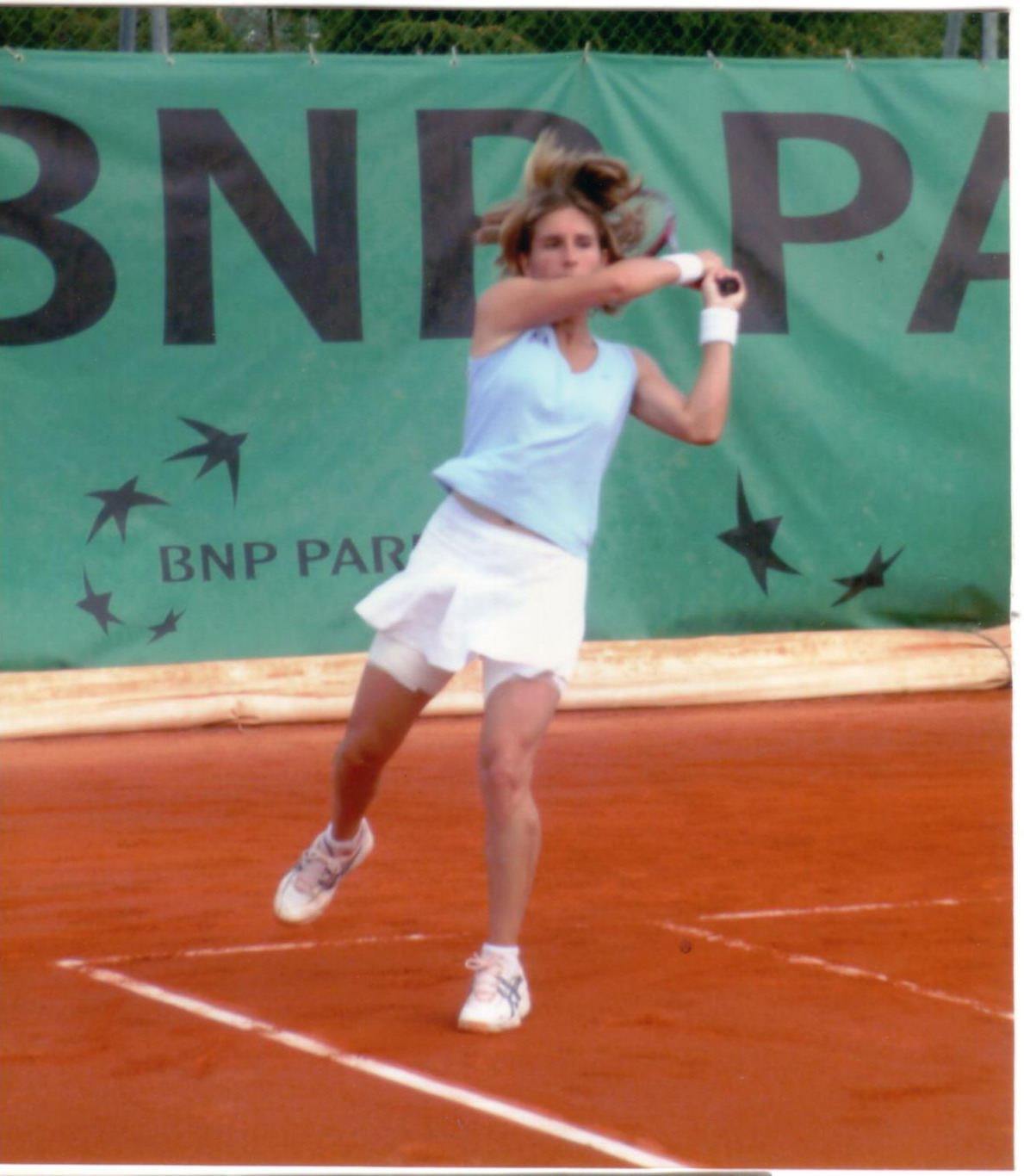 French tennis player Emilie Loit